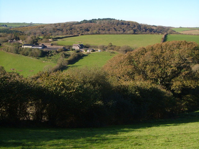 Great Orcheton The farm, seen across the Ayleston Brook valley,is built on the remains of an old manor house. Over the hill behind the farm is the Erme estuary, so the woods visible (Claypark Plantation and Yarninknowle Wood) are on the far side.